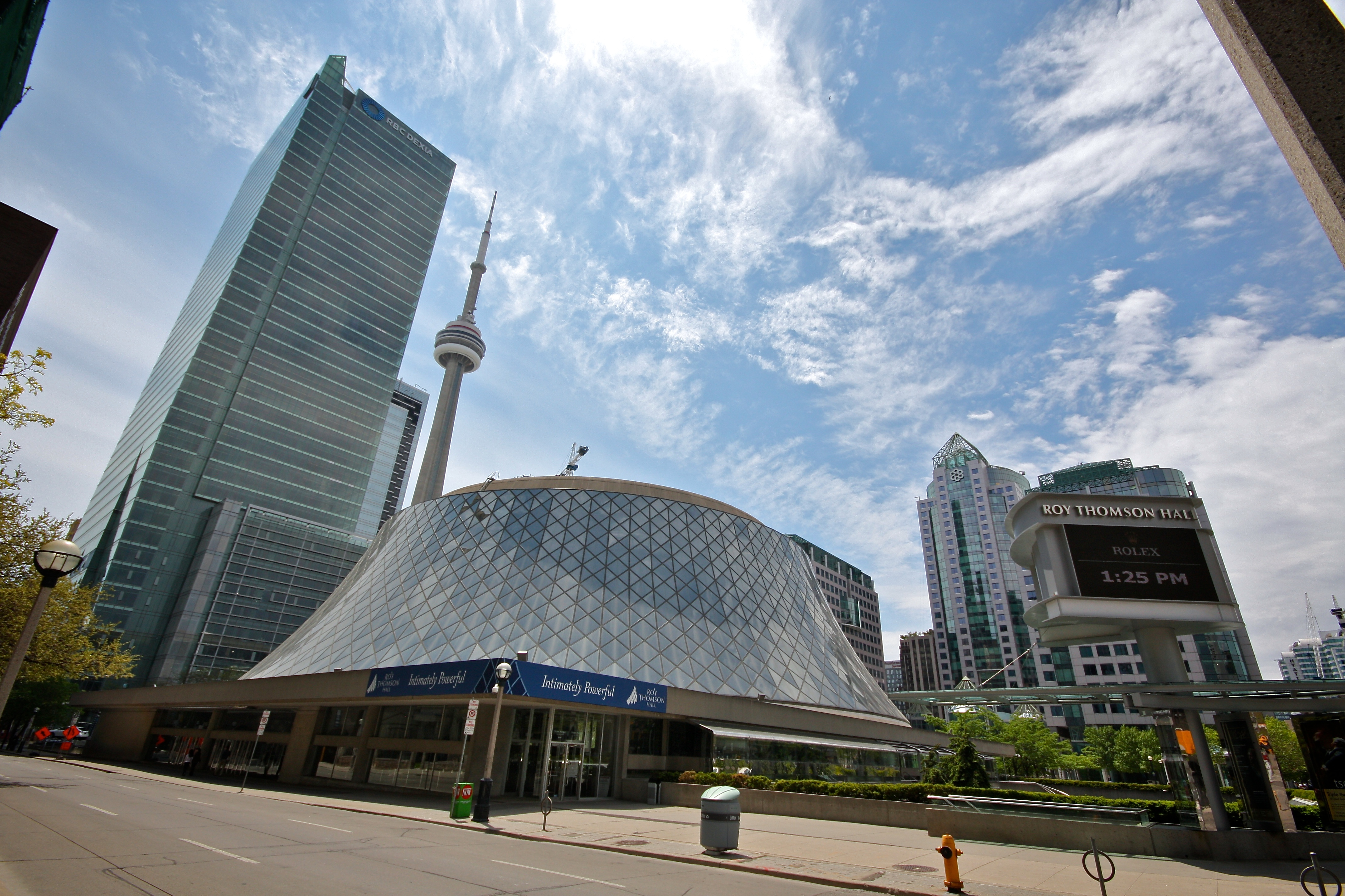 Wide angle Image of the Toronto Roy Thompson Hall